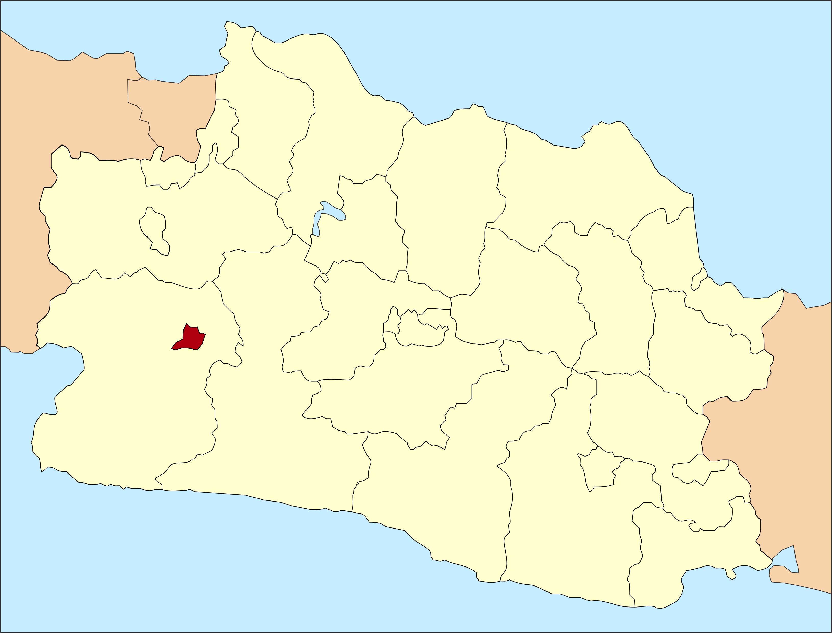 Locator map for the Sukabumi City, West Java